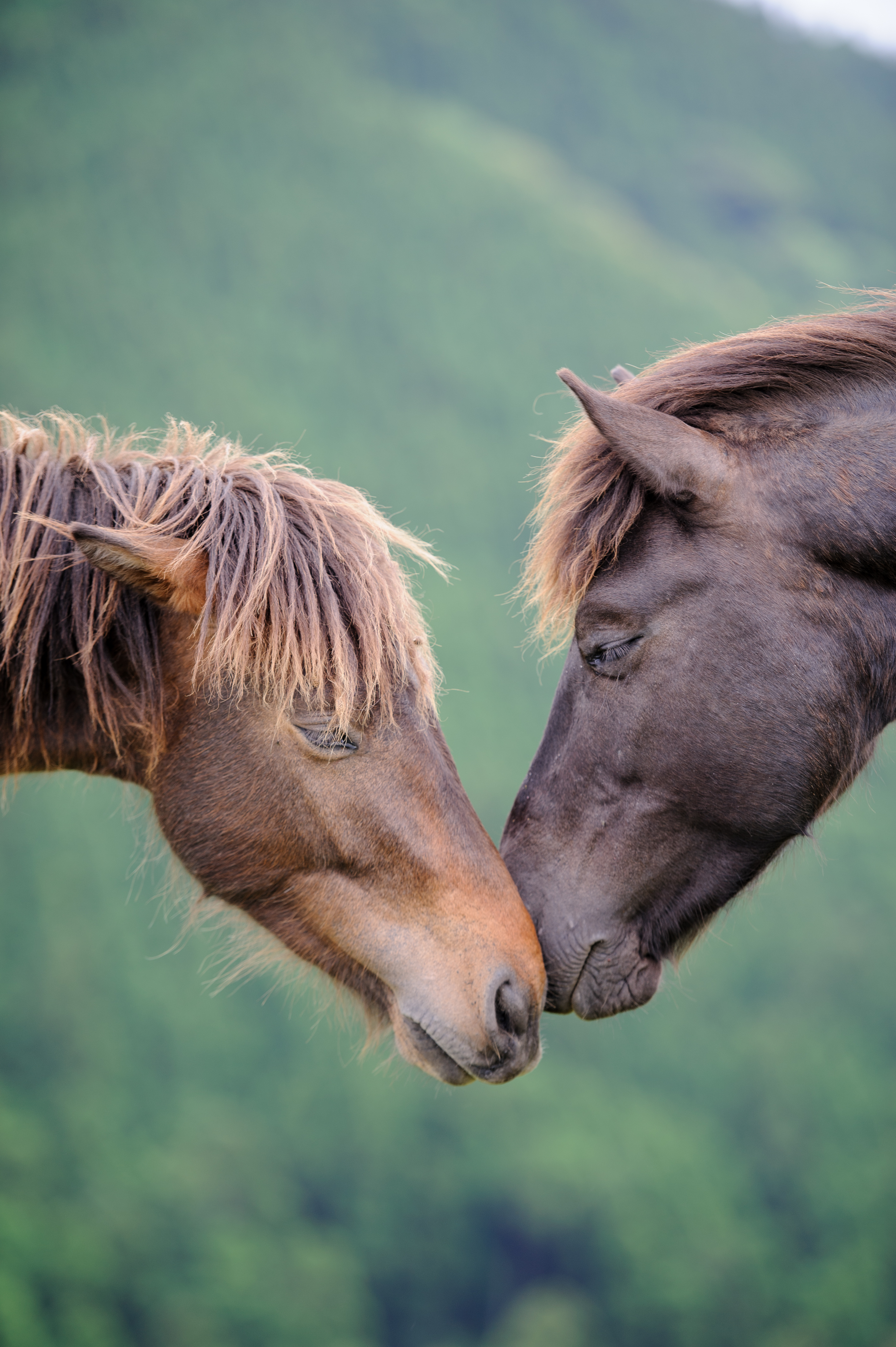 Misaki ponies heads